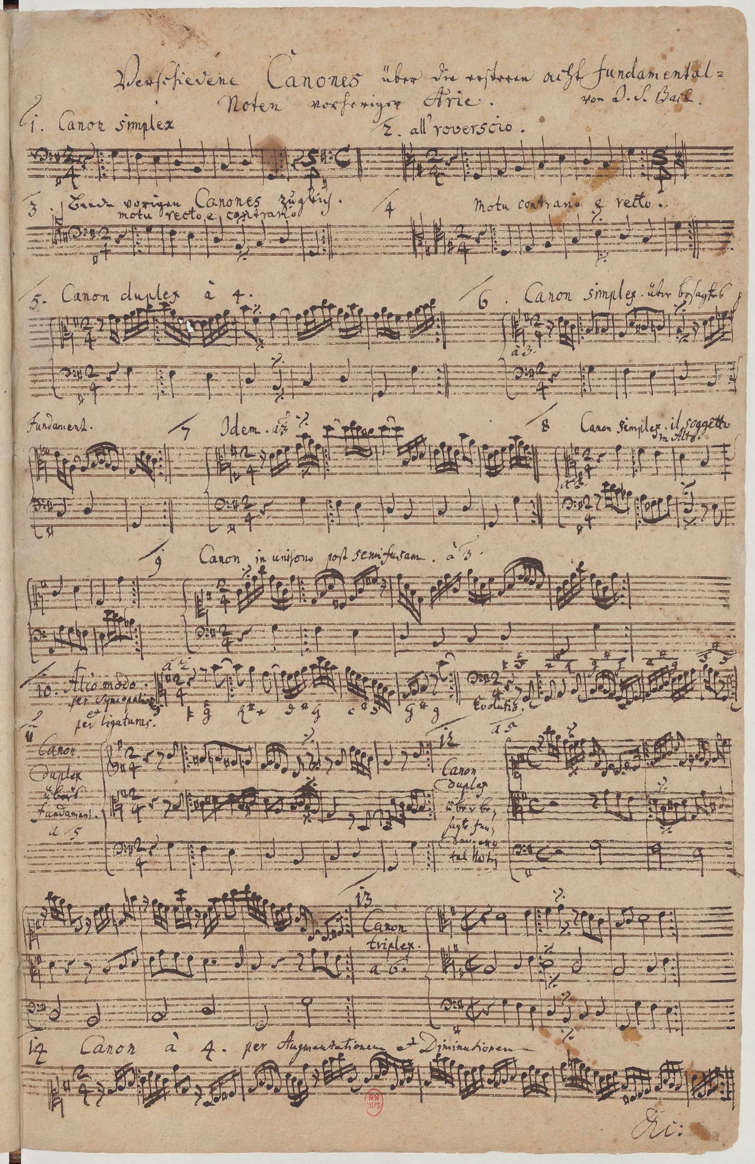 The fourteen canons BWV 1087, found in the Bach's copy of the "Goldberg Variations".